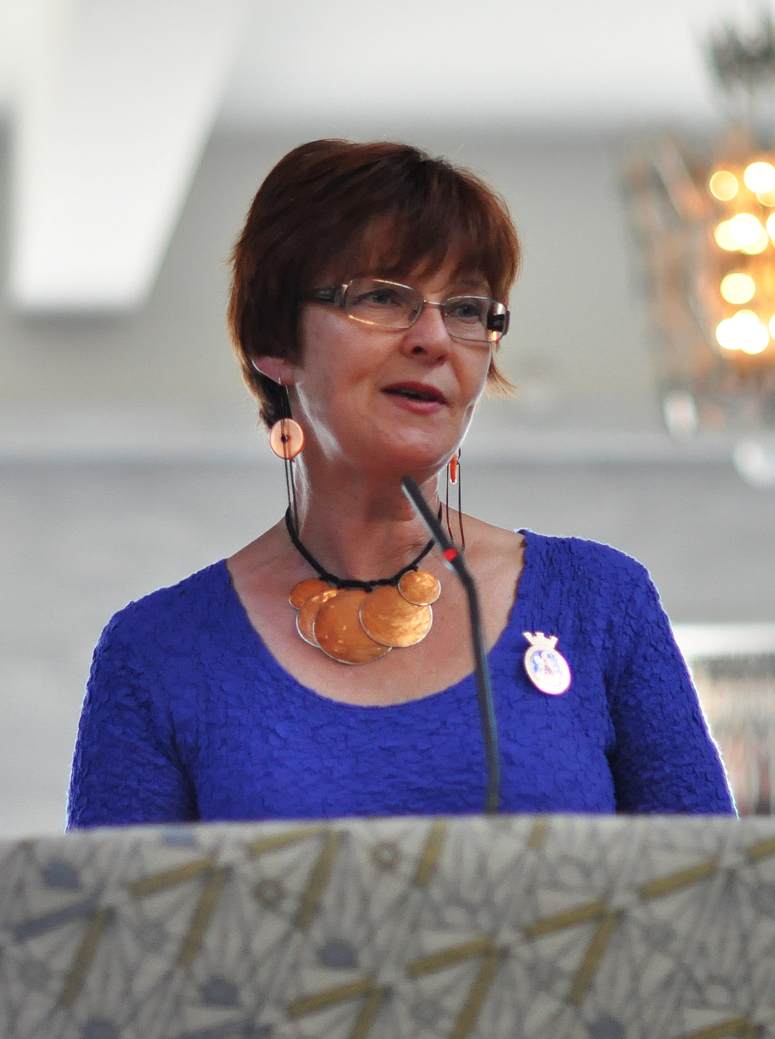 Deputy Mayor Aud Kvalbein greets the World Humanist Congress 2011 at City Hall in Oslo.